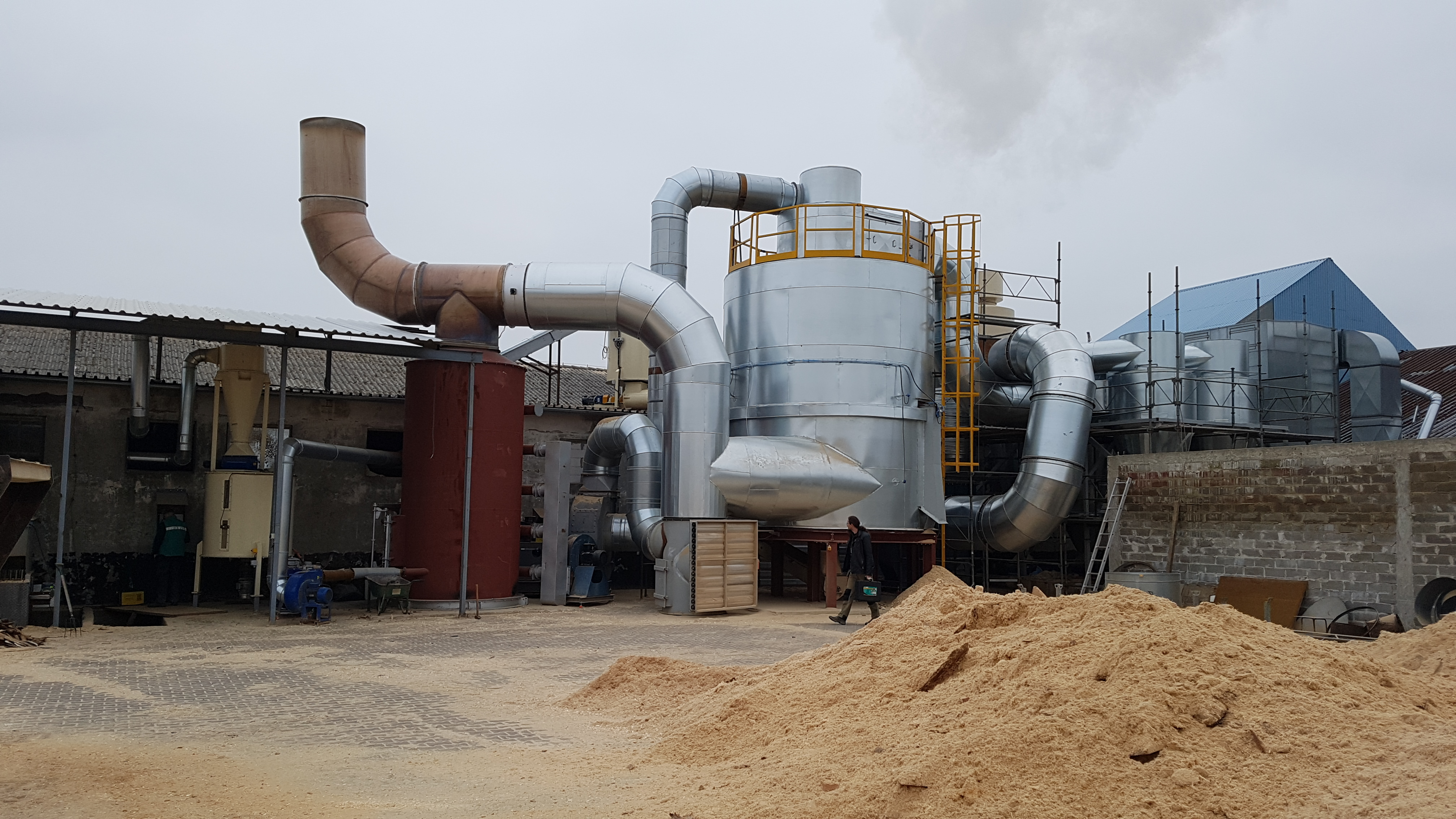 This 10 t/h output sawdust dryer is used as a pretreatment step prior to pelletisation